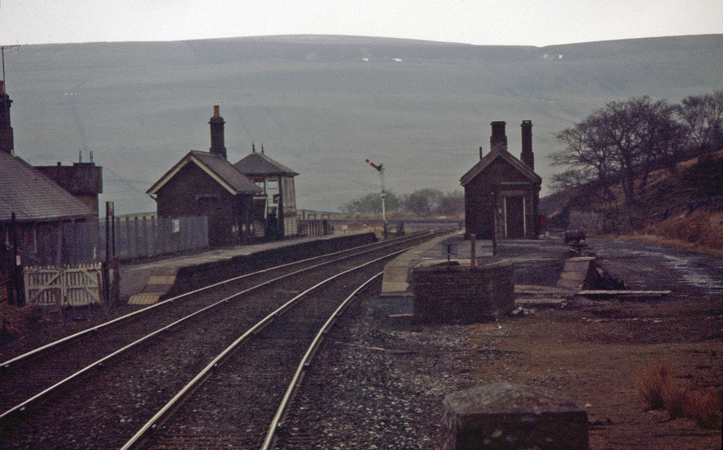 Hawes Junction now known as Garsdale railway station